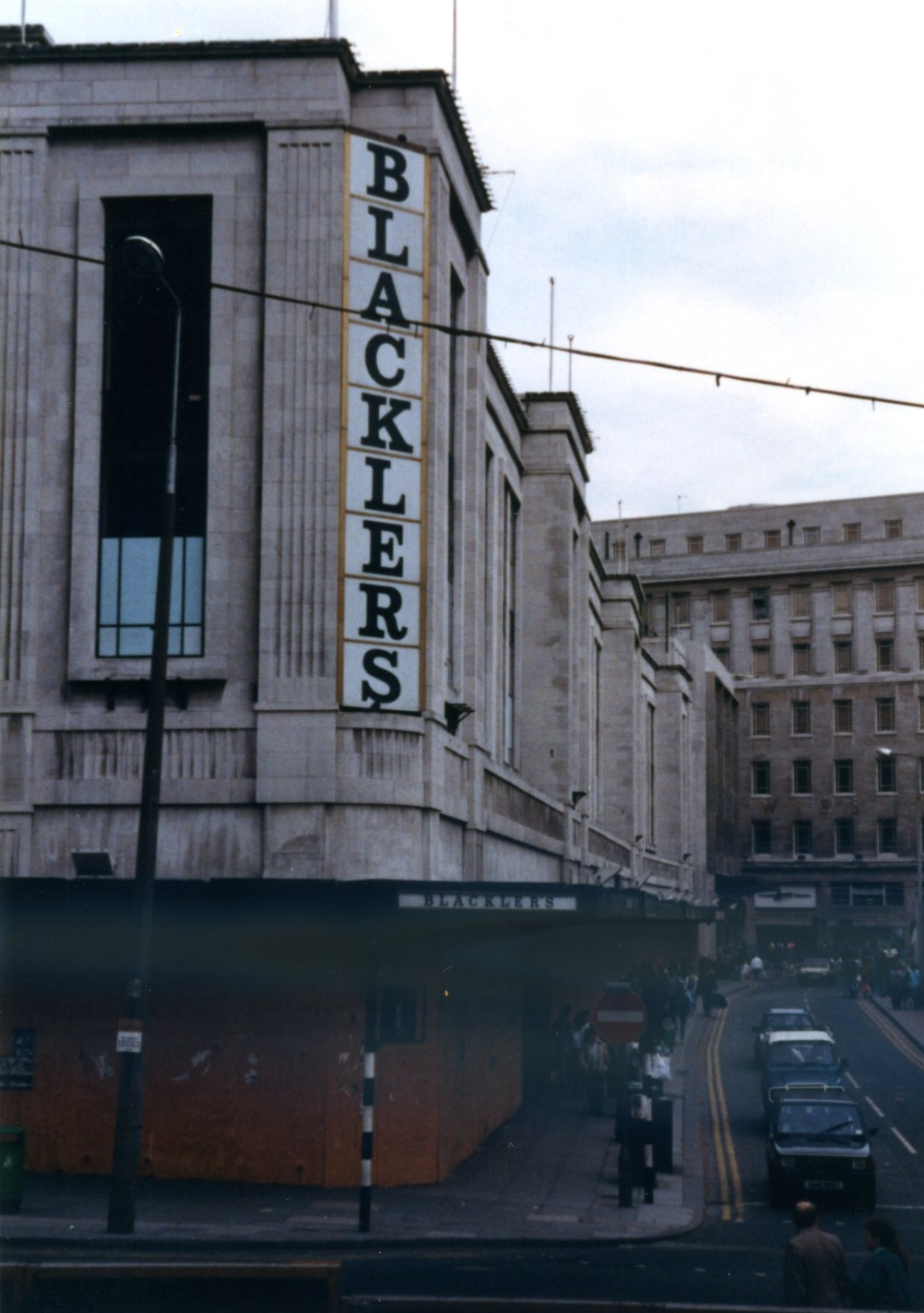 Photo of Blacklers department store in Liverpool taken by Butseriouslyfolks| in August of 1988, a few months after it closed. Note that the ground floor is boarded up. Summary Photo of Blacklers department store in Liverpool taken by Butseriouslyfolks in August of 1988, a few months after it closed. Note that the ground floor is boarded up.